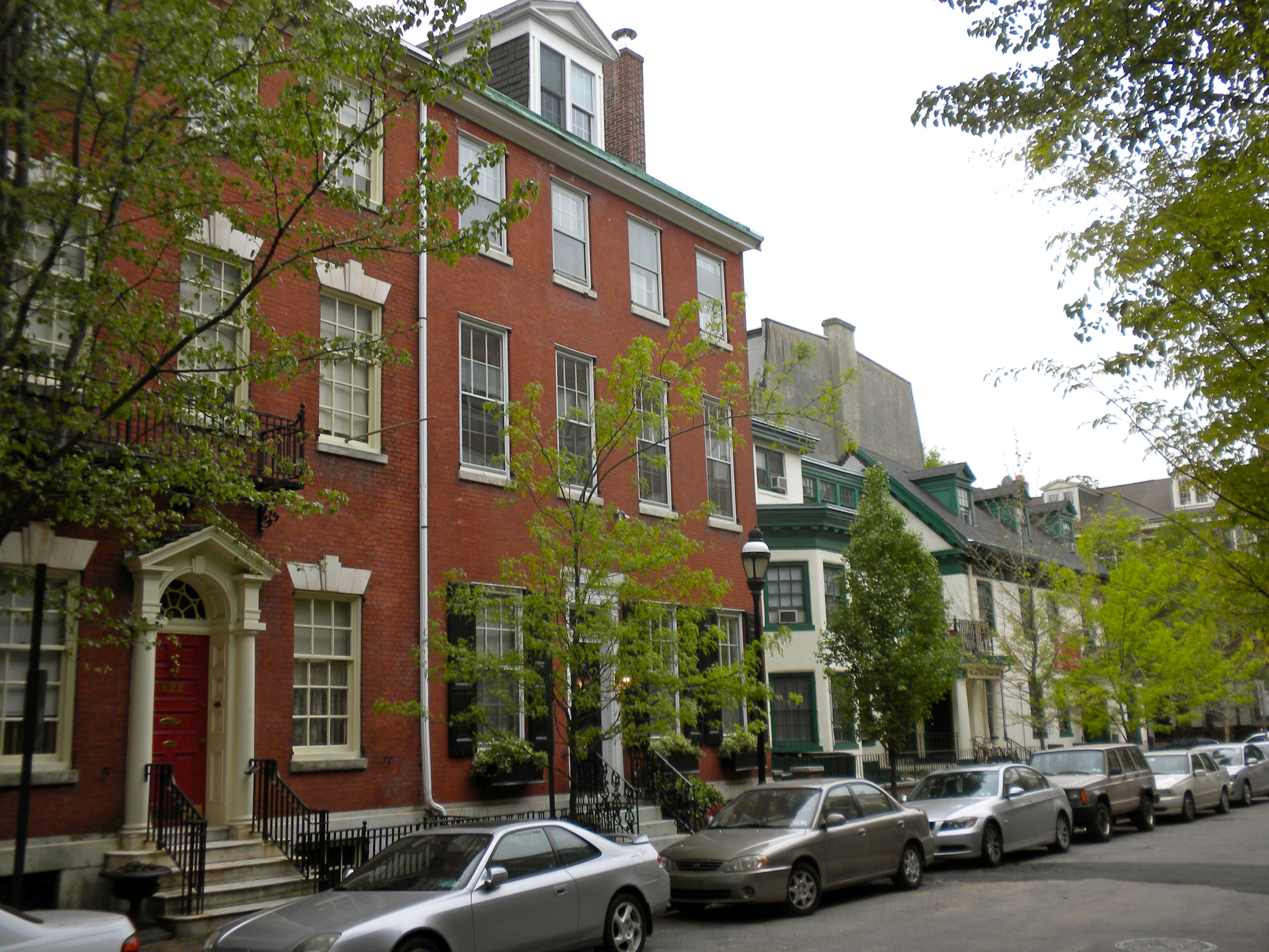 Clinton Street Historic District in Philadelphia on NRHP since April 26, 1972. Basically Clinton Street between 9th and 11th, or in NRHP-speak "Bounded by 9th, 11th, Pine, and Cypress Streets" No. 1008 is the J. Peter Lesley House, a National Historic Landmark. This photo shows the "Clinton Common" (the white house in the background) which is on the south side of Clinton at 10th. In the Washington Square West neighborhood.